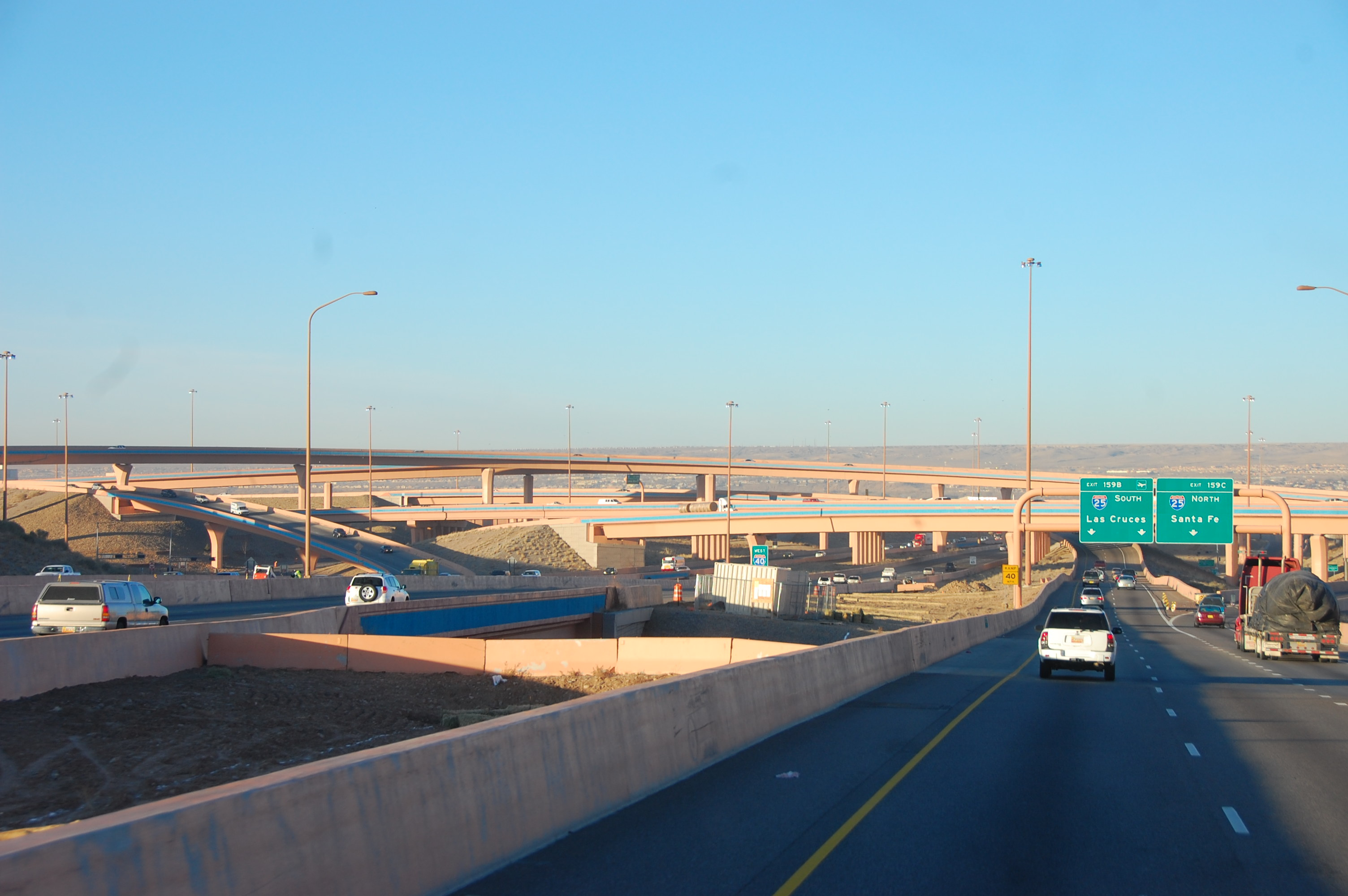 Traveling on I-40 in Albuquerque approaching the Big I.